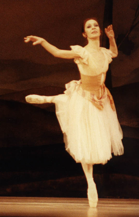 Sara Nieto dancing in the romantic ballet, Giselle.